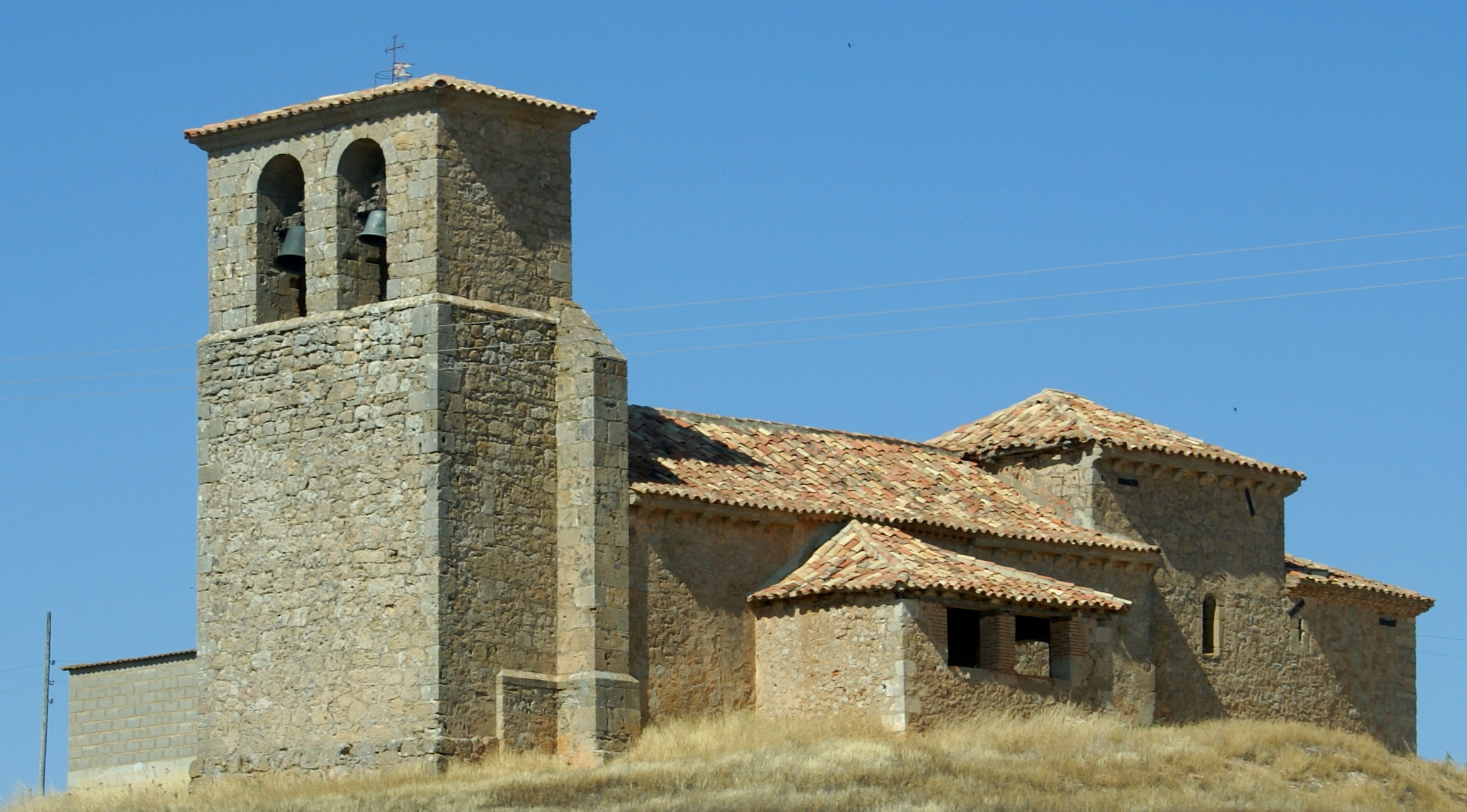 Church of St. Martin in Bordejé, Soria, Spain.